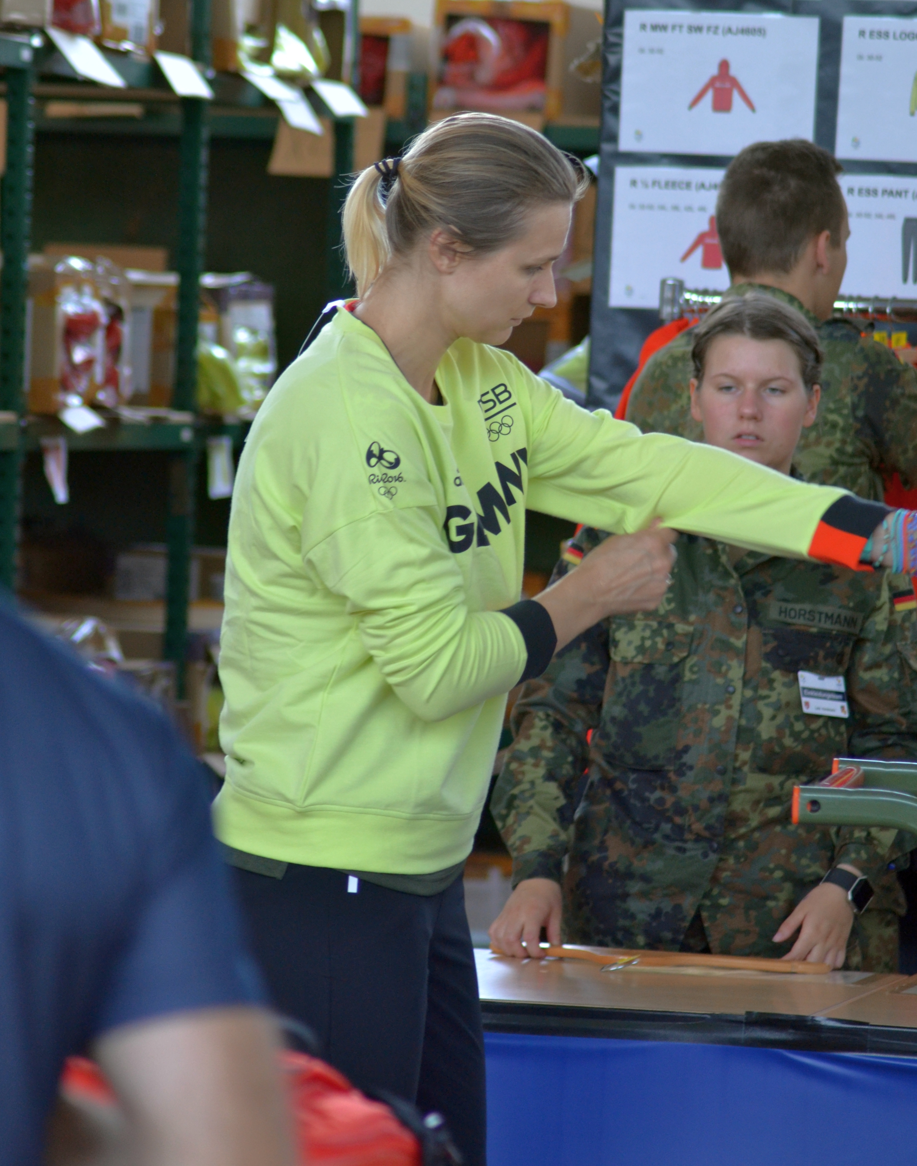 Media day of the clothing of the German Olympic team for Rio 2016 in the Emmich-Cambrai-Kaserne in Hanover. Pictured persons see Categories.